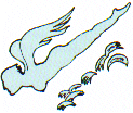 Unofficial flight emblem of the 2nd Flight of No. 16 Squadron of the Finnish Air Force 1942–1943.